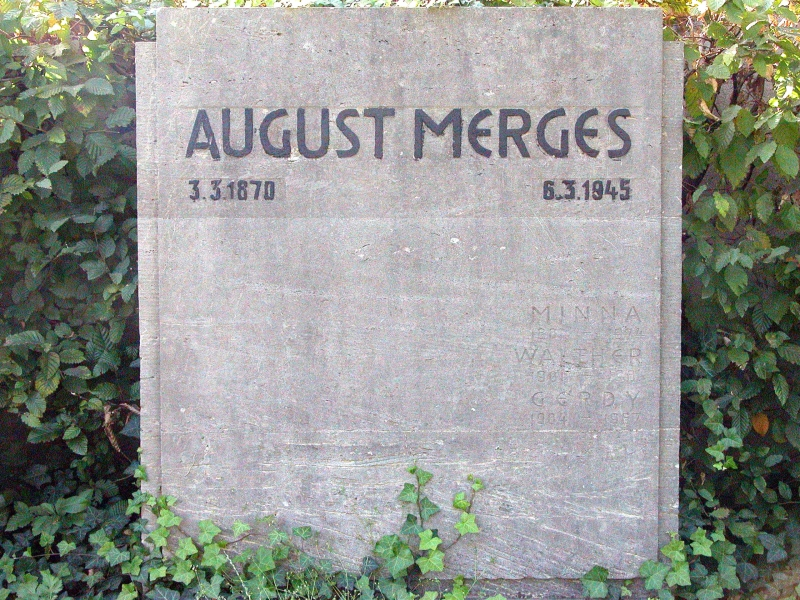 Braunschweig, Germany: August Merges’ tomb.)